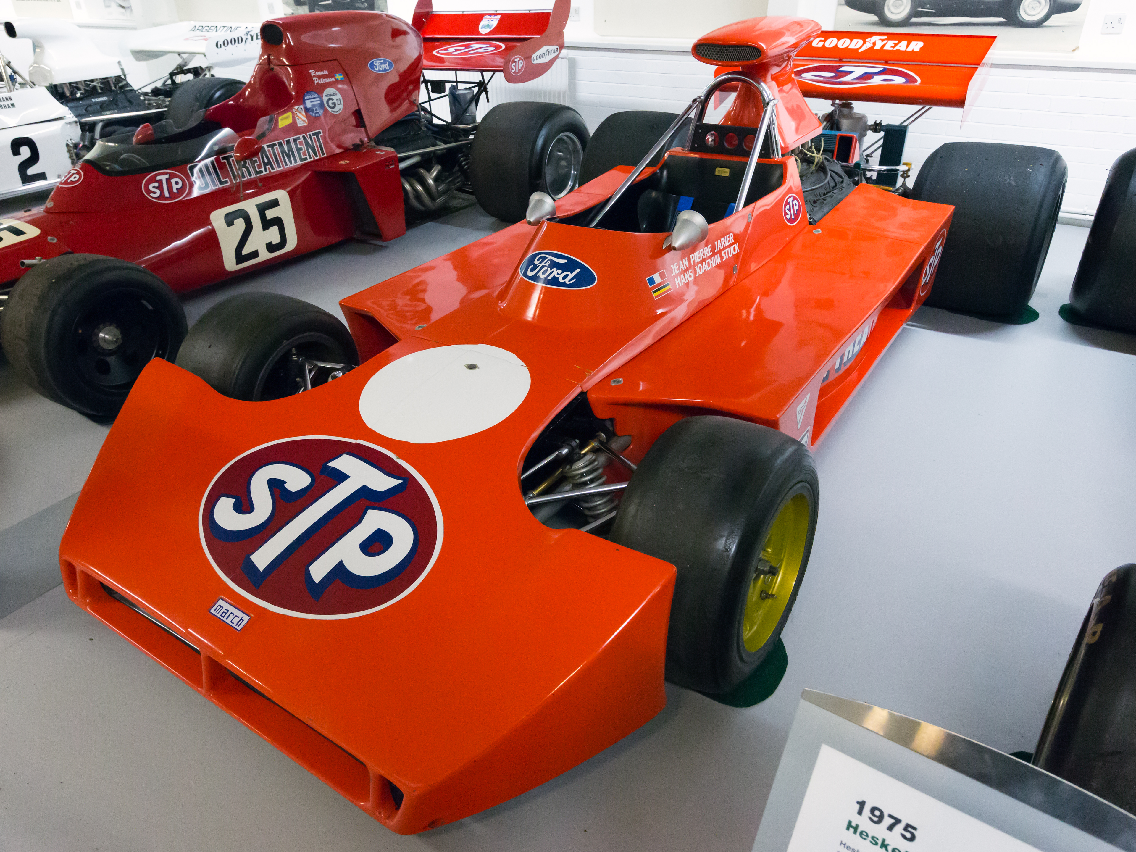 1973 March 731-01